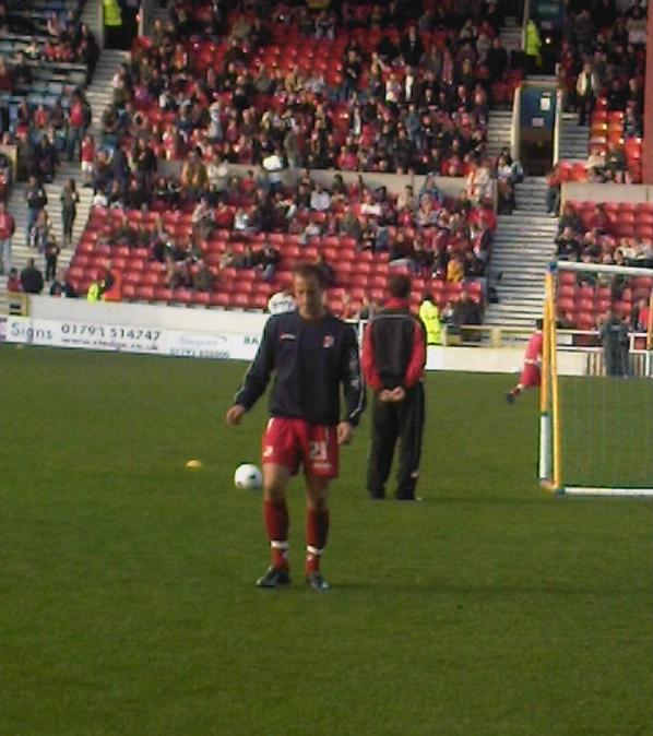 Blair Sturrock warming up for Swindon Town